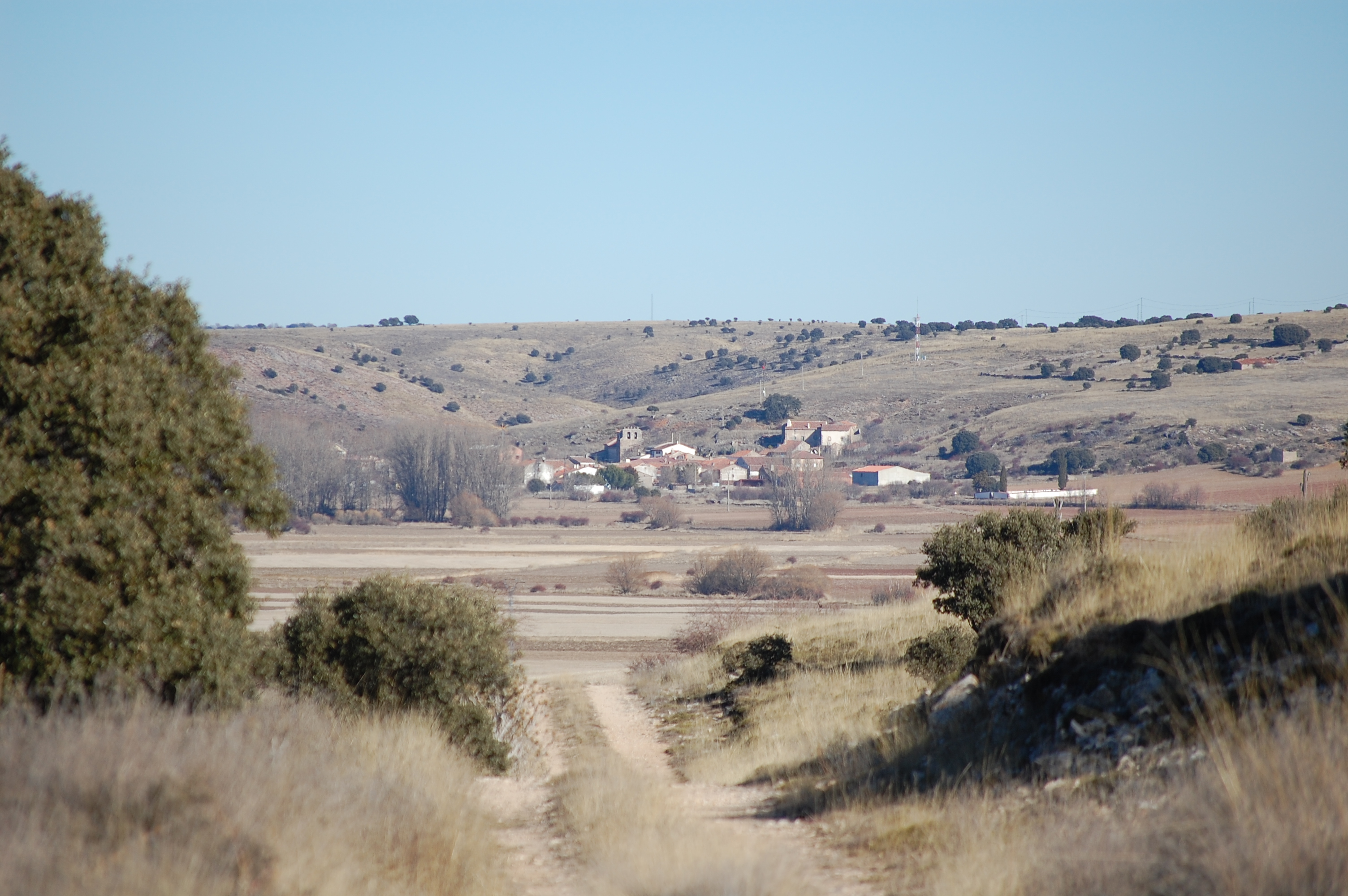 View of Estriégana, Guadalajara, Spain.